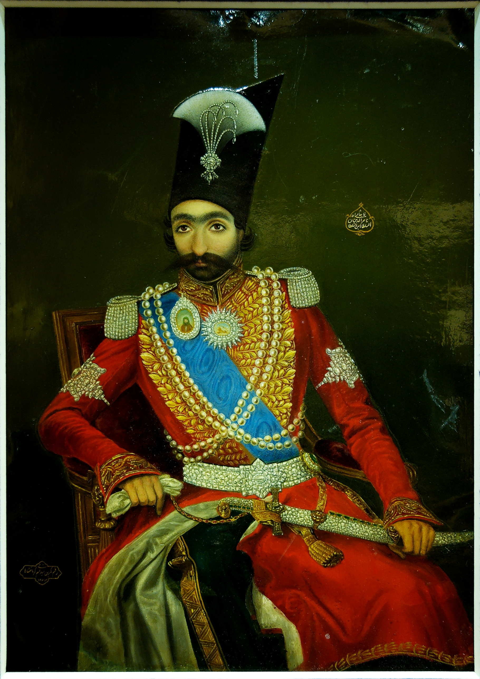 Portrait of Nasser al-Din Shah Qajar, Shah of Persia (1831–1896). Oil on copper plate, 1274 AH, Tehran (Iran).